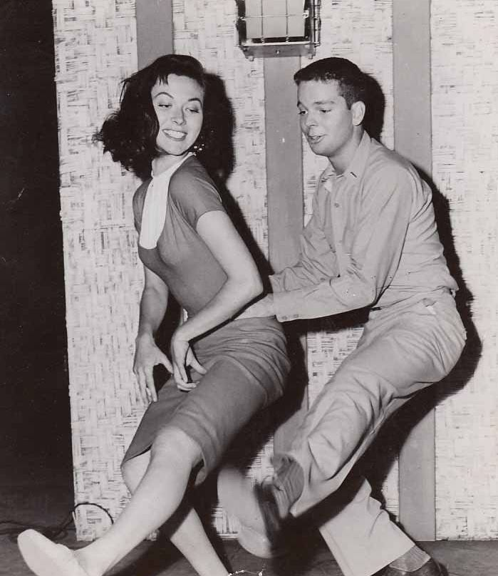 Russ Tamblyn and Gia Scala in publicity photo, 1957